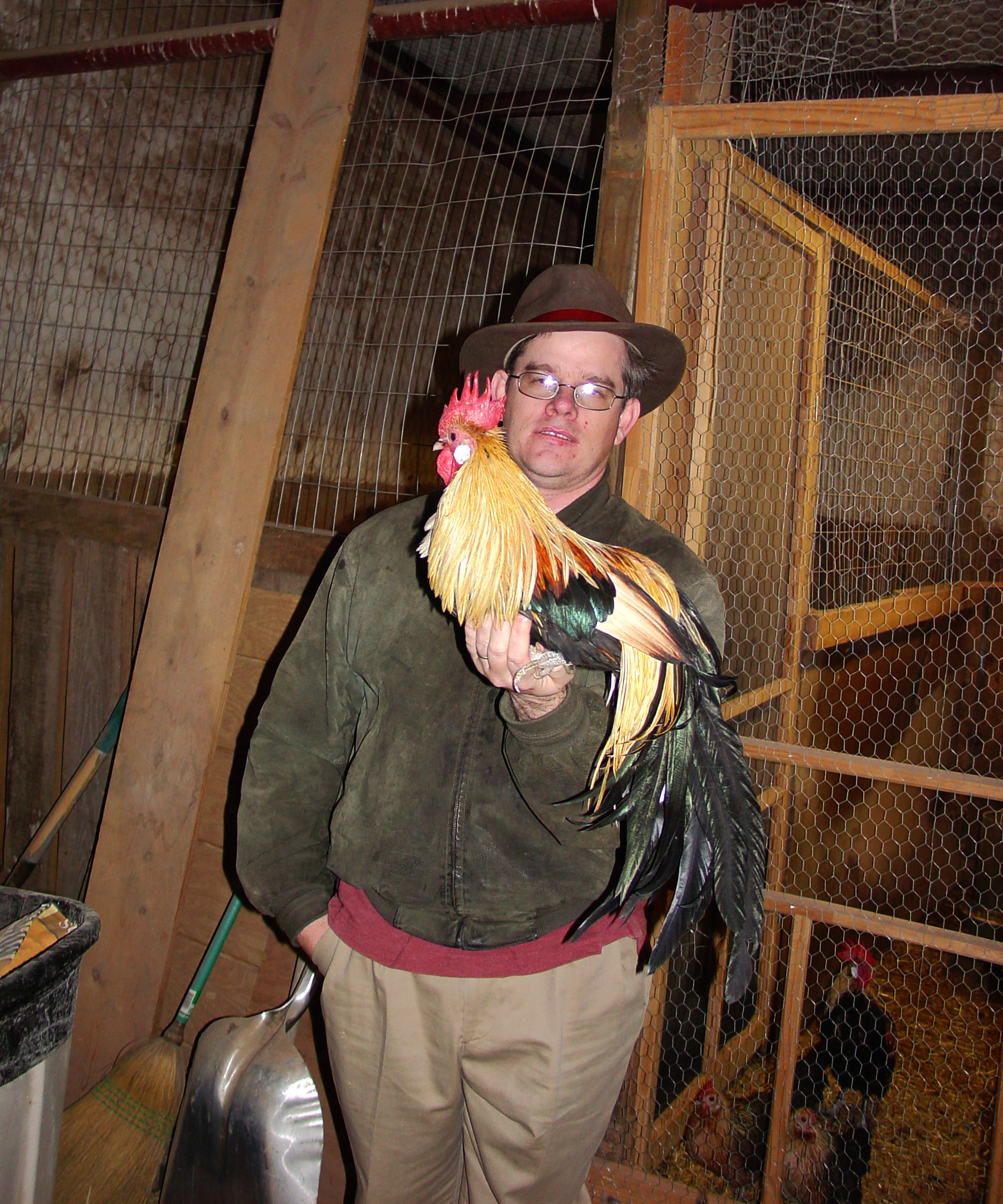 malcolm mccallum with a rooster. Other information An email was sent from at 6:15pm on 2-8-2015 Evidence: The license agreement has been forwarded to OTRS.